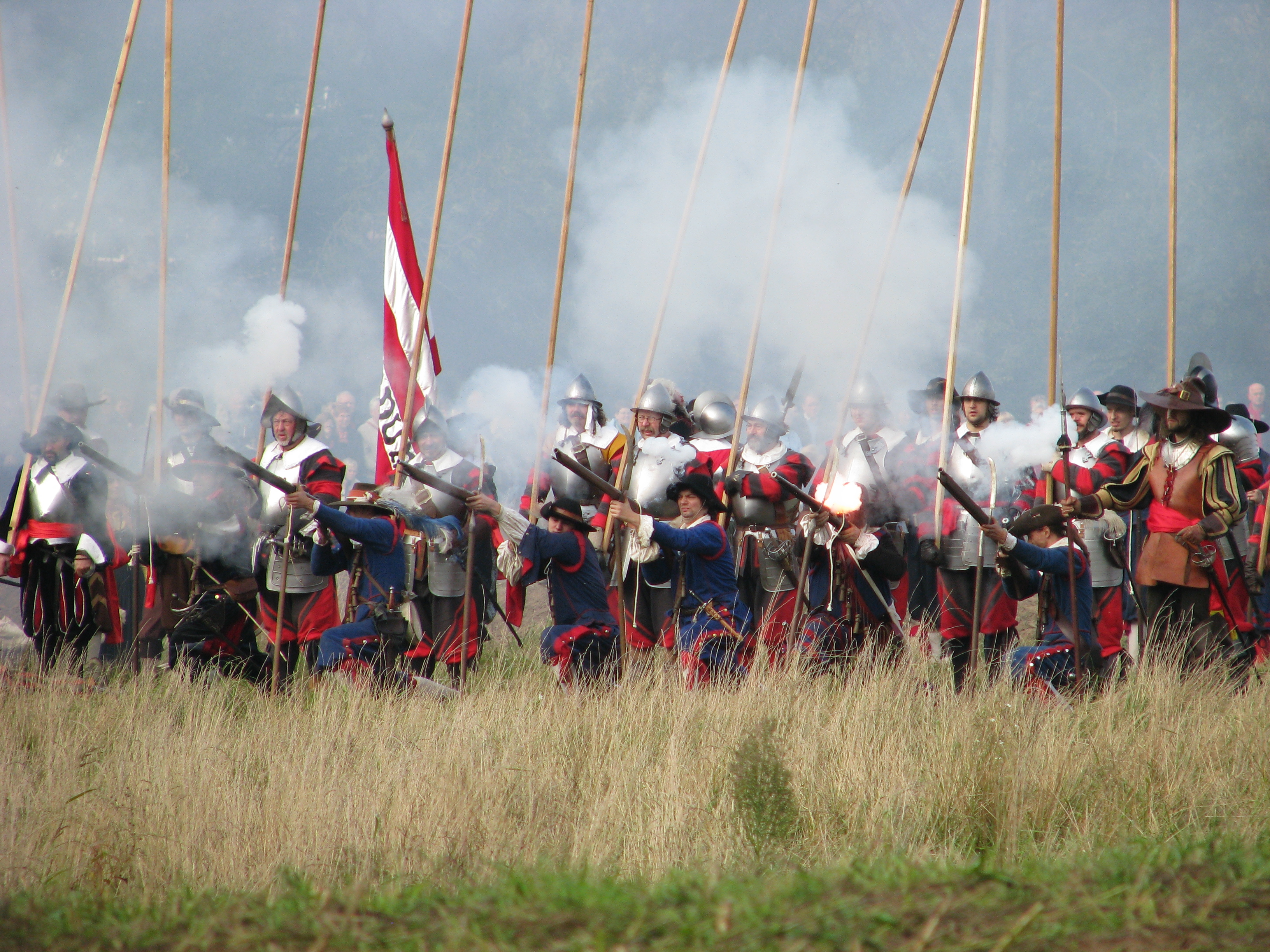 Dutch troops advance